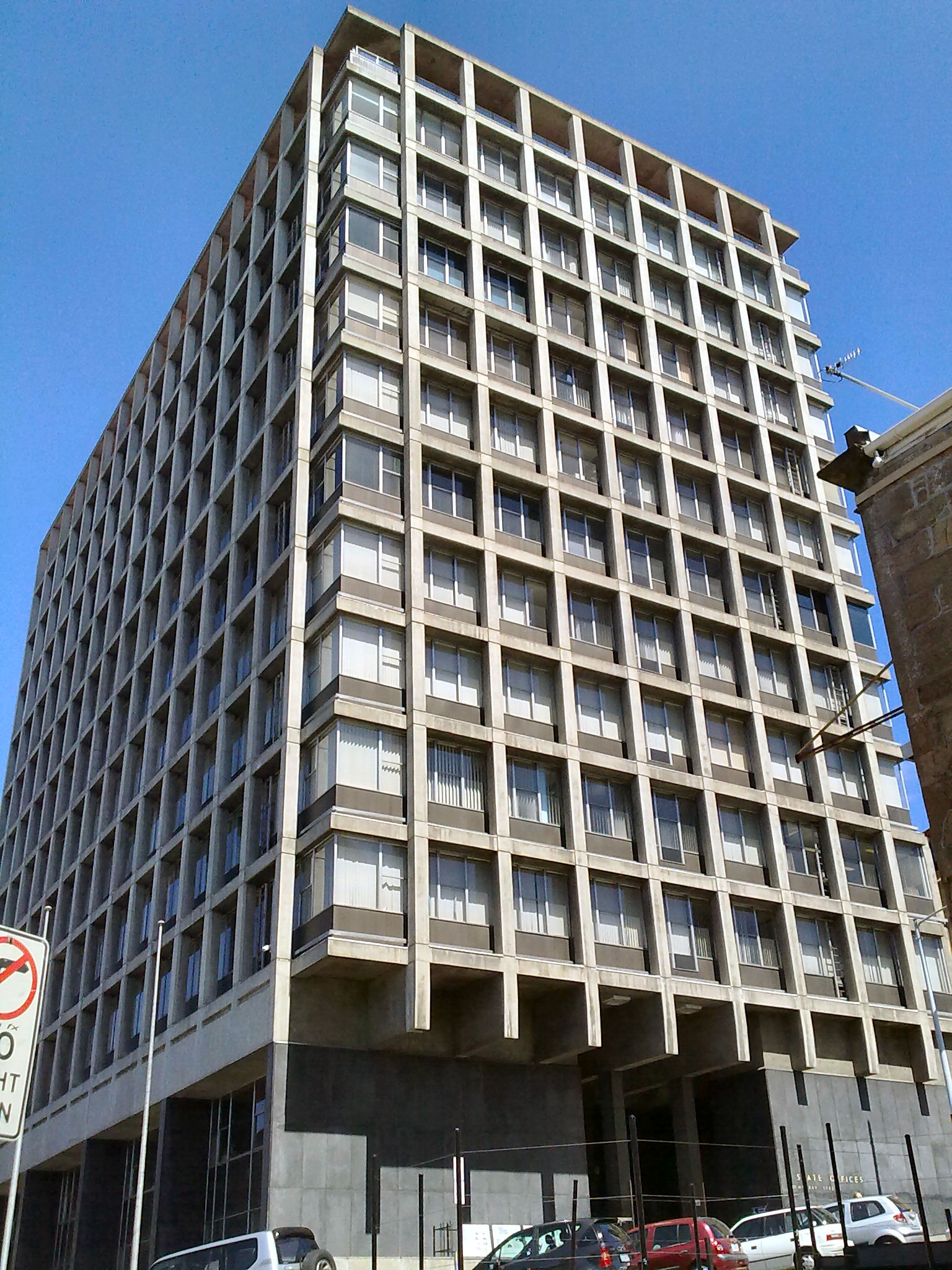 Image of the soon to be demolished 10 murray street, Hobart Australia.